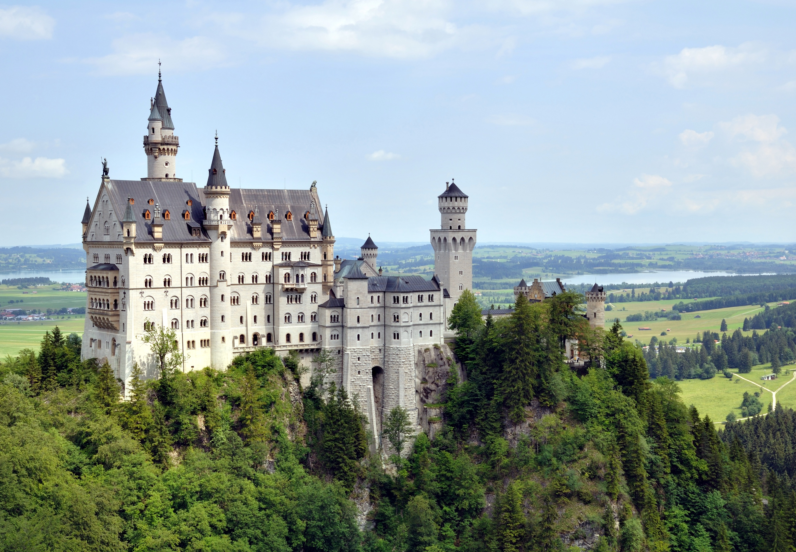 Castle Neuschwanstein, Bavaria, Germany.